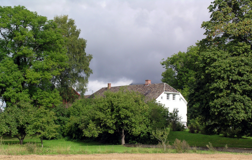 Venstøp, Skien, Norway. Henrik Ibsen lived here with his family between 1836 and 1843.